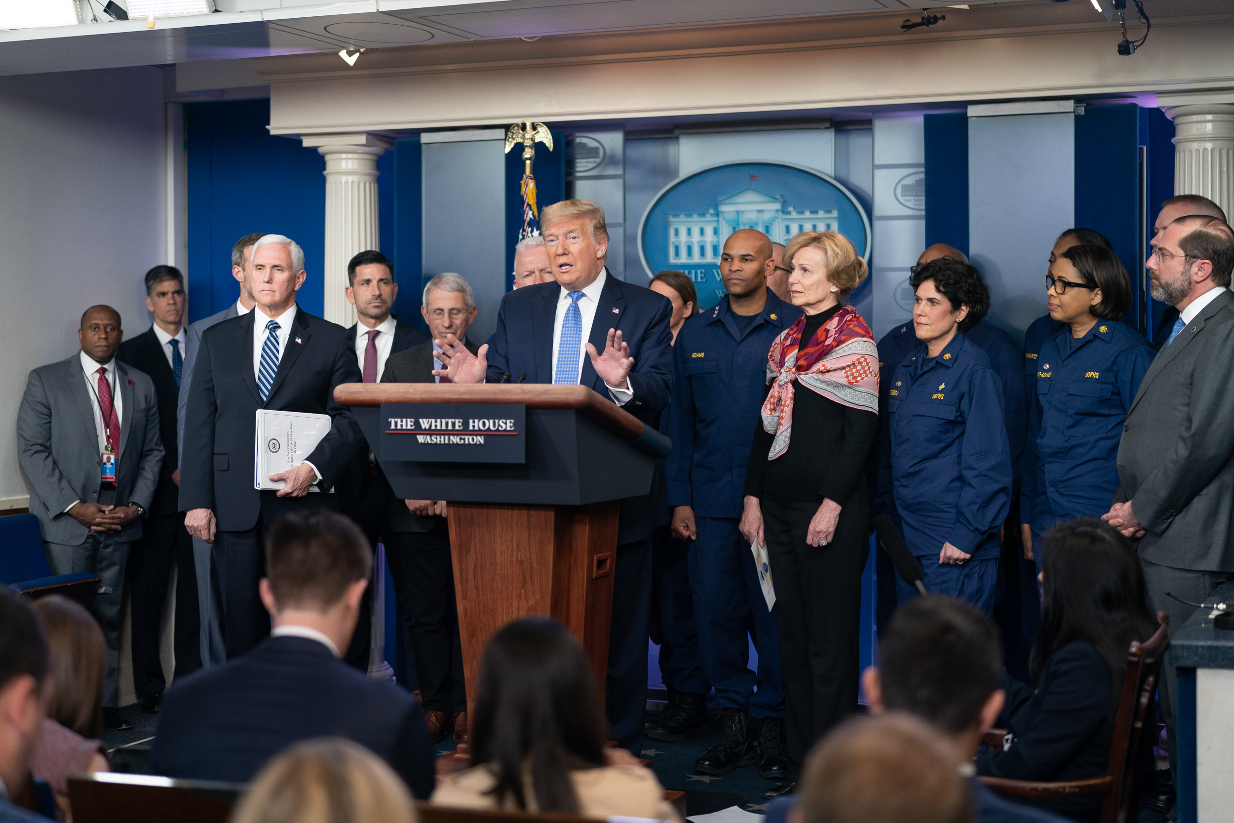 President Donald J. Trump, joined by Vice President Mike Pence and members of the White House Coronavirus Task Force, delivers remarks at a coronavirus update briefing Sunday, March 15, 2020, in the James S. Brady Press Briefing Room of the White House. (Official White House Photo by Andrea Hanks)